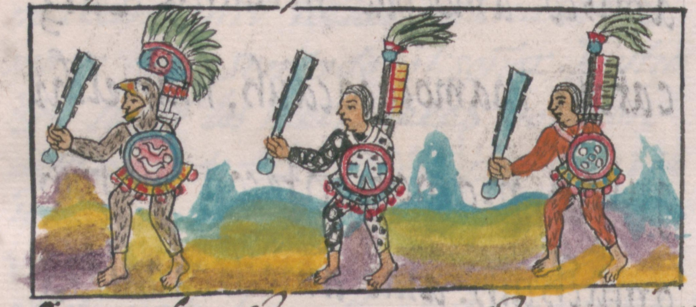 Aztec warriors led by an eagle knight, each holding a macuahuitl club. Copy of a painting from Florentine Codex, page IX, F, 5v.